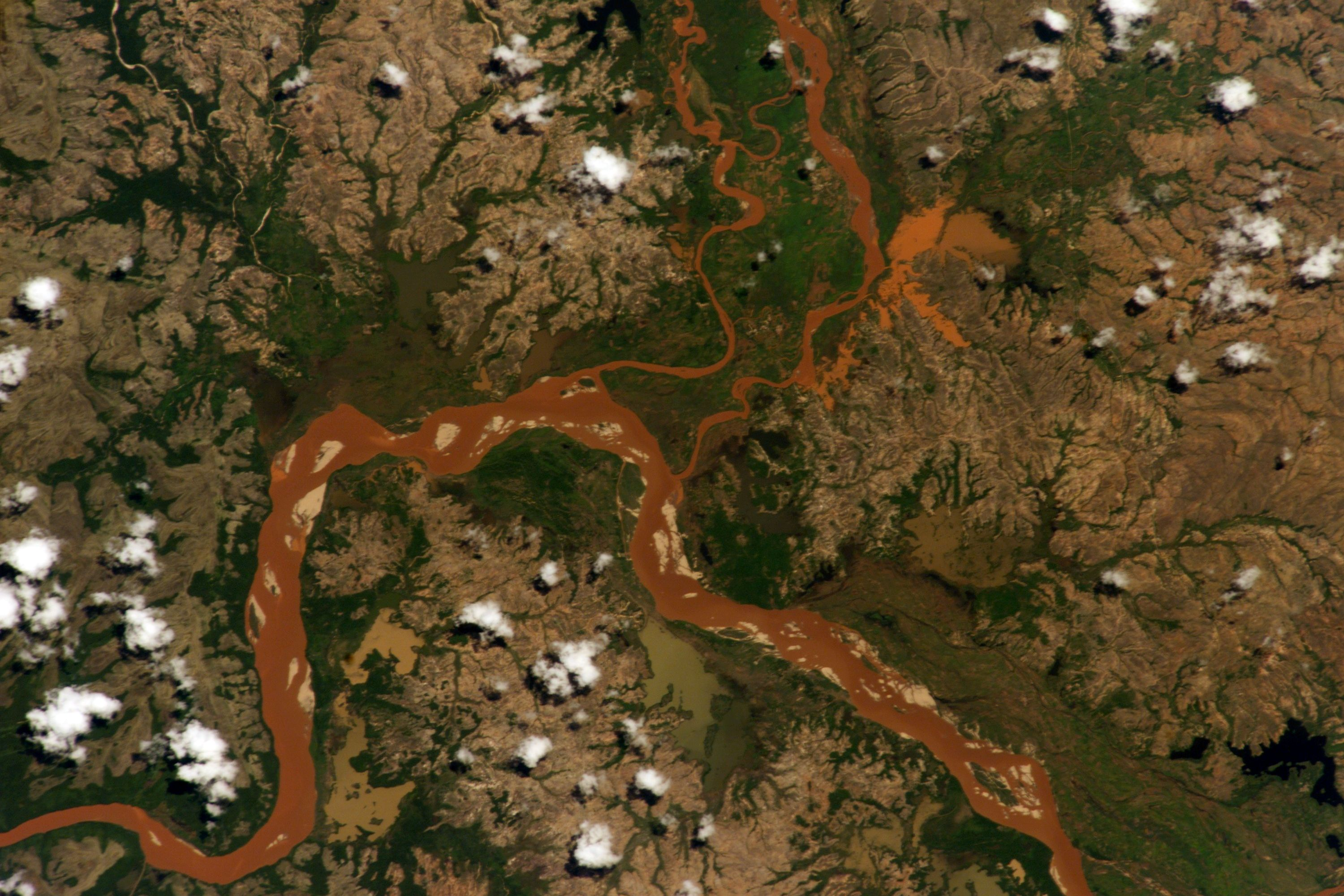 Tsiribihina River, Madagascar